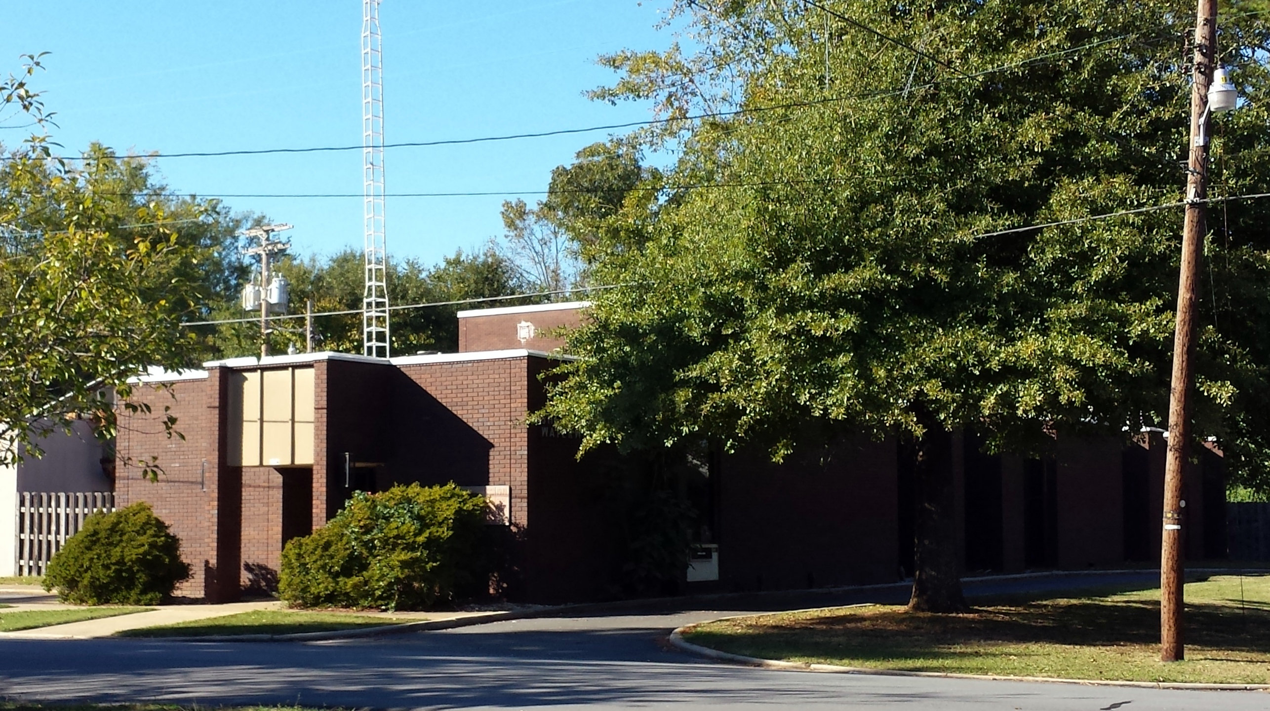 Water office in Sheridan, AR